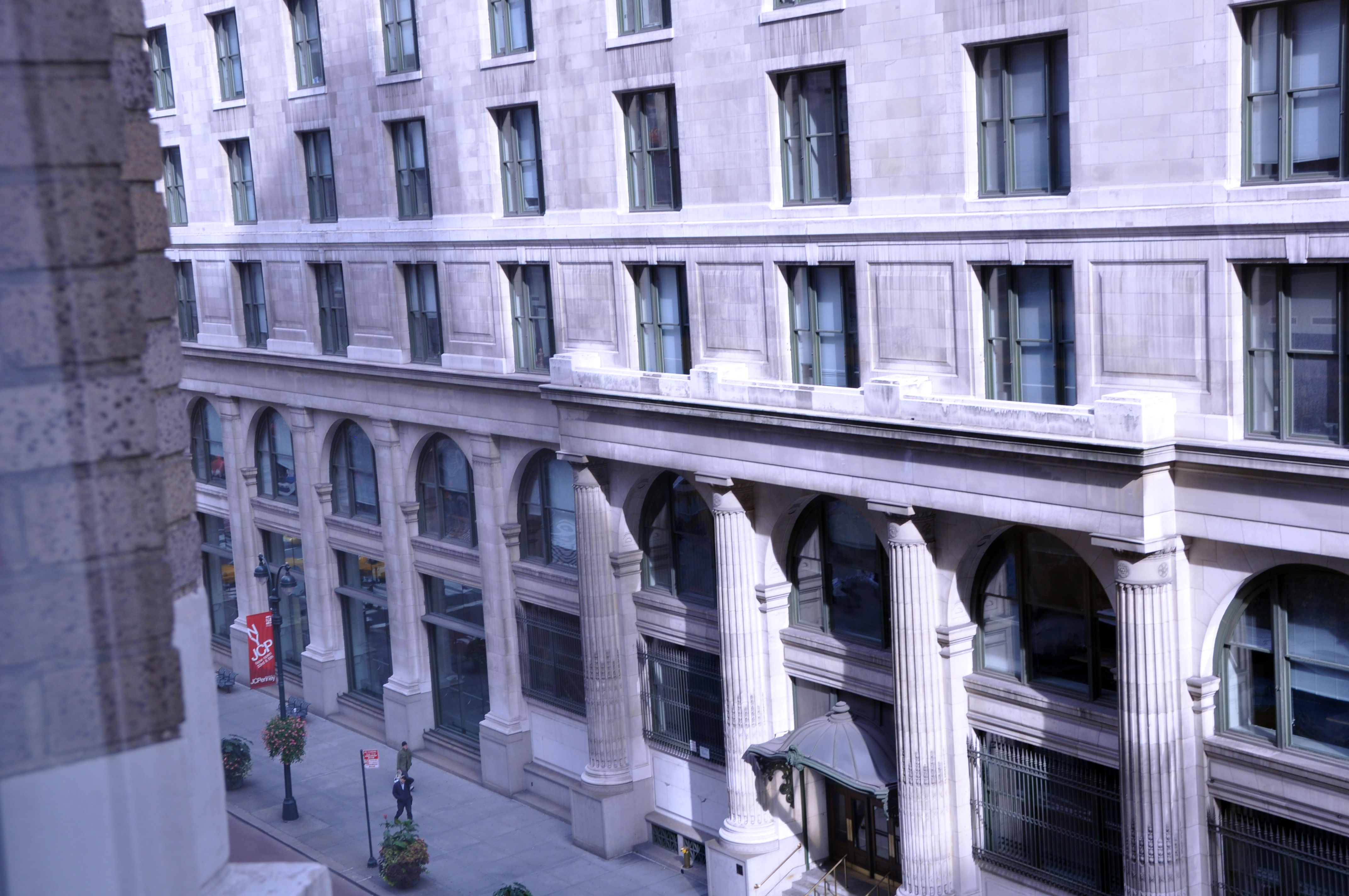 ILR School Extension Building in New York City